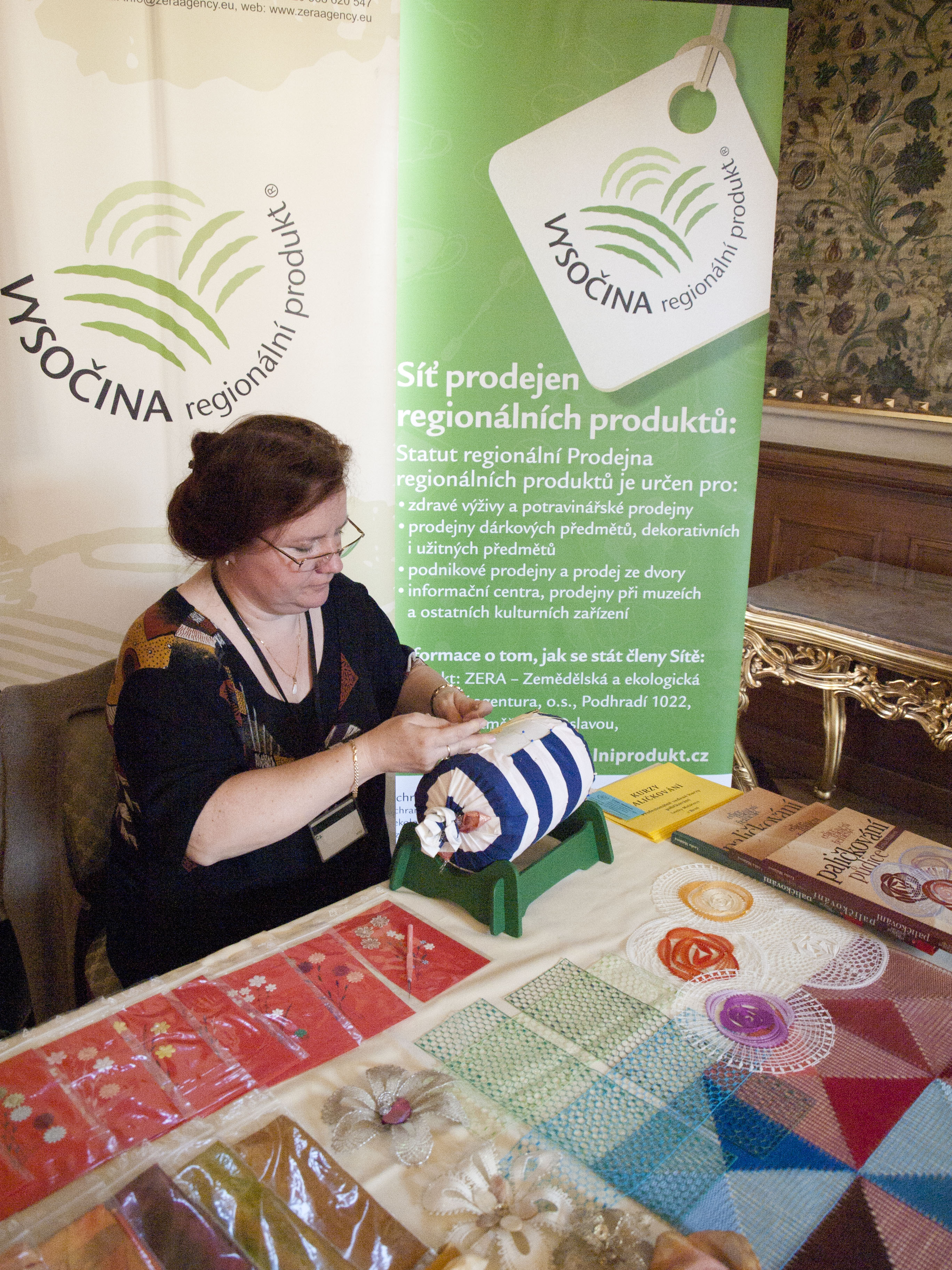 Presentation of regional brand Vysočina in Czech Senate